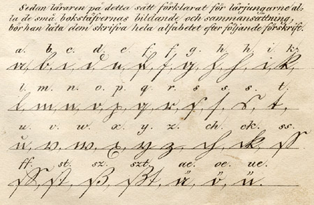 Kurrent, the German handwriting - from Lärobok i tyska språket (a Swedish German language textbook, 1858)